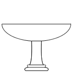 GIF - Perirrhanterion